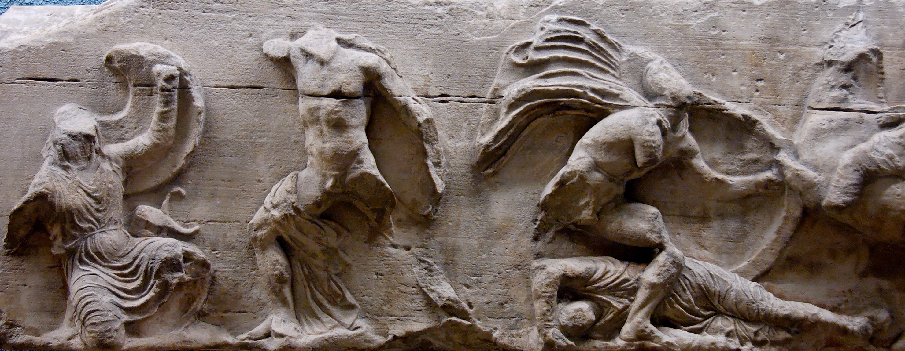 Battle between Greeks and Orientals. Block from the South frieze of the Temple of Athena Nike at the Athenian Acropolis.